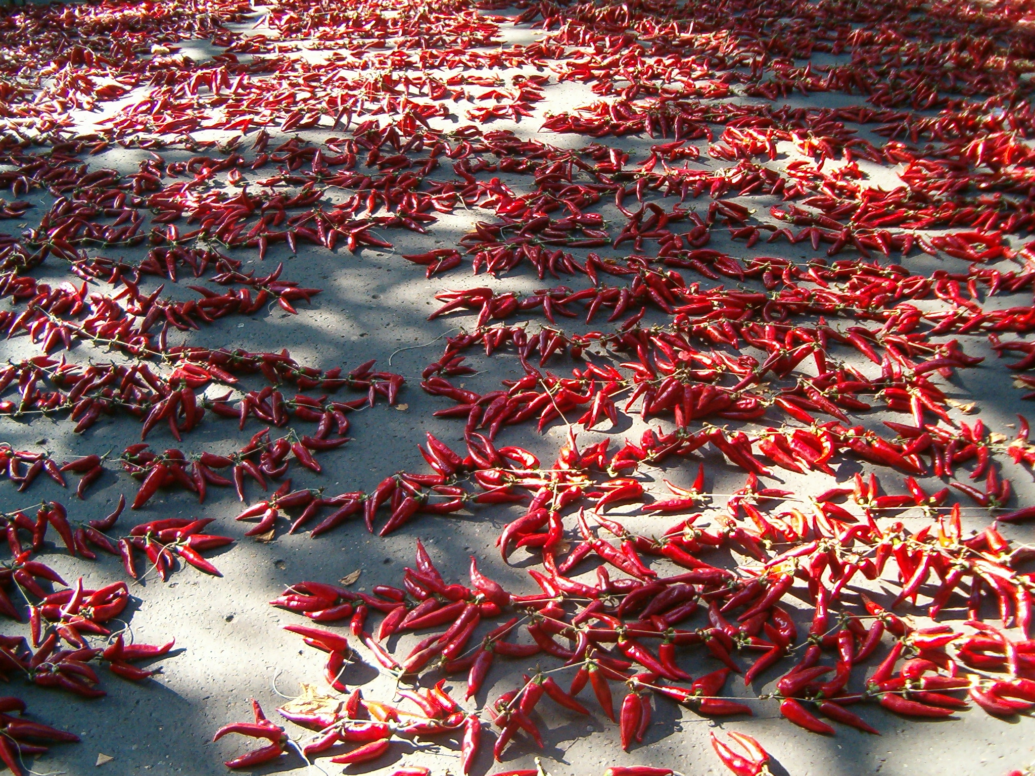 Szegedi paprika (prepared for Guinness-record)